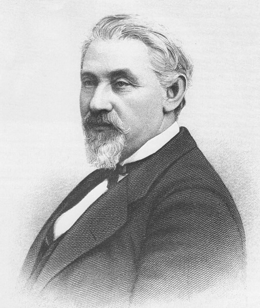 Joseph Seligman (1819 - 1880), a prominent U.S. banker and businessman.